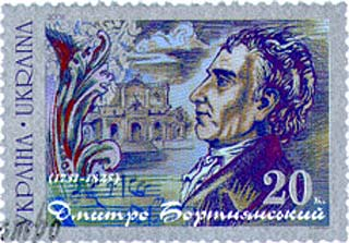 Stamp of Ukraine